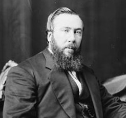 George William Howlan